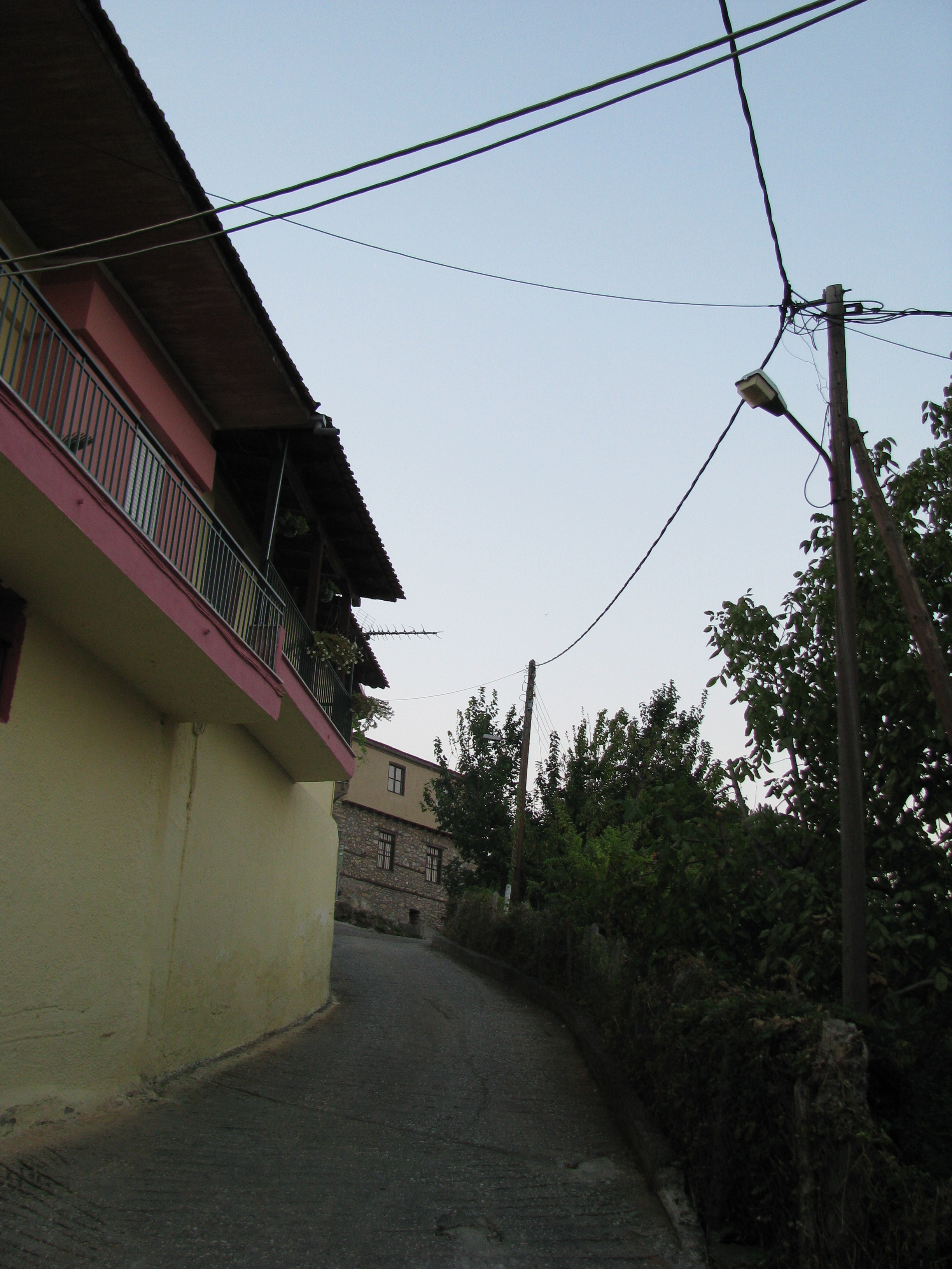 Village of Mesimer or Mesimeri, Pella prefecture, Greece